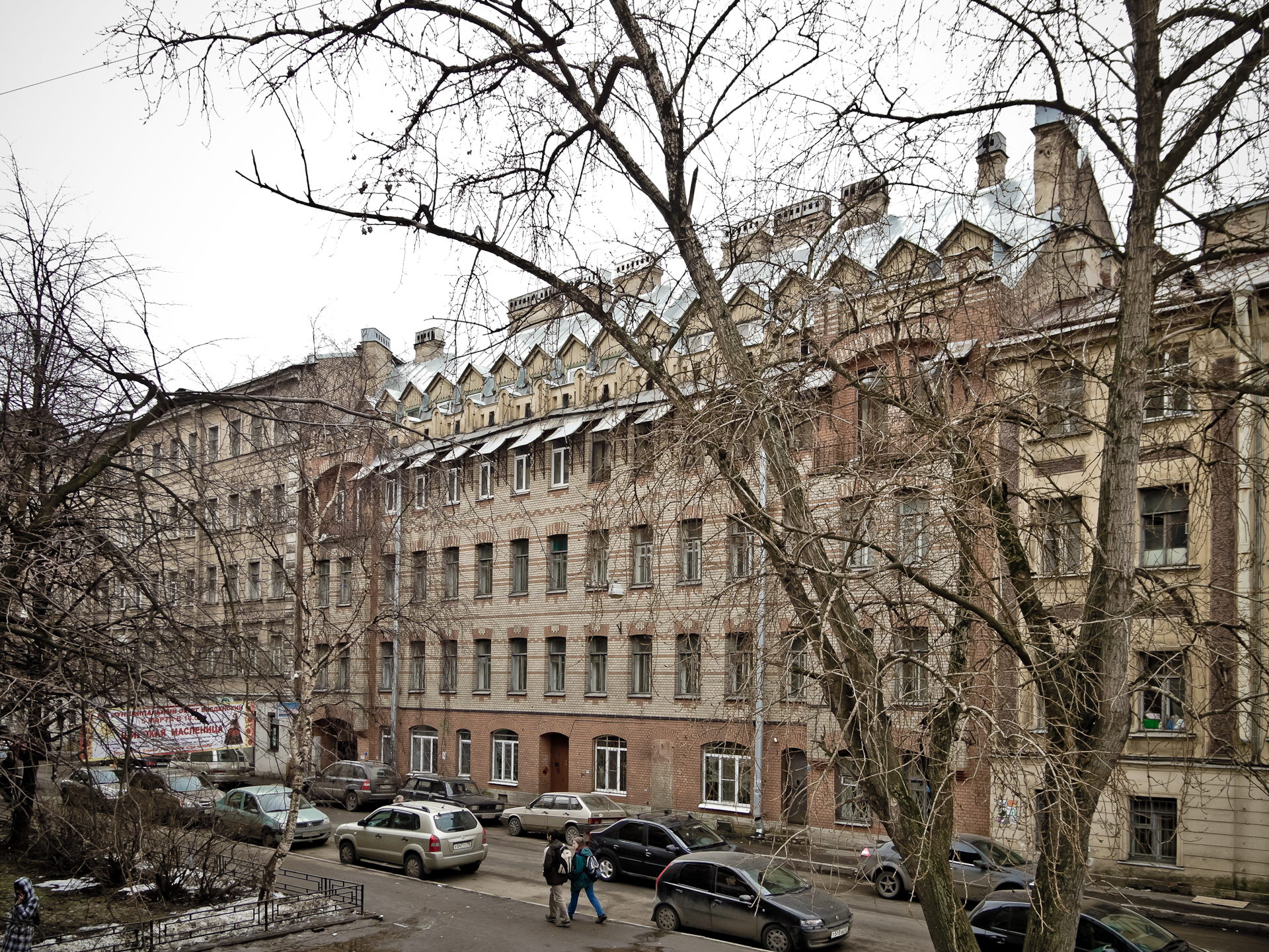 Saint Petersburg, 12, Blokhina street